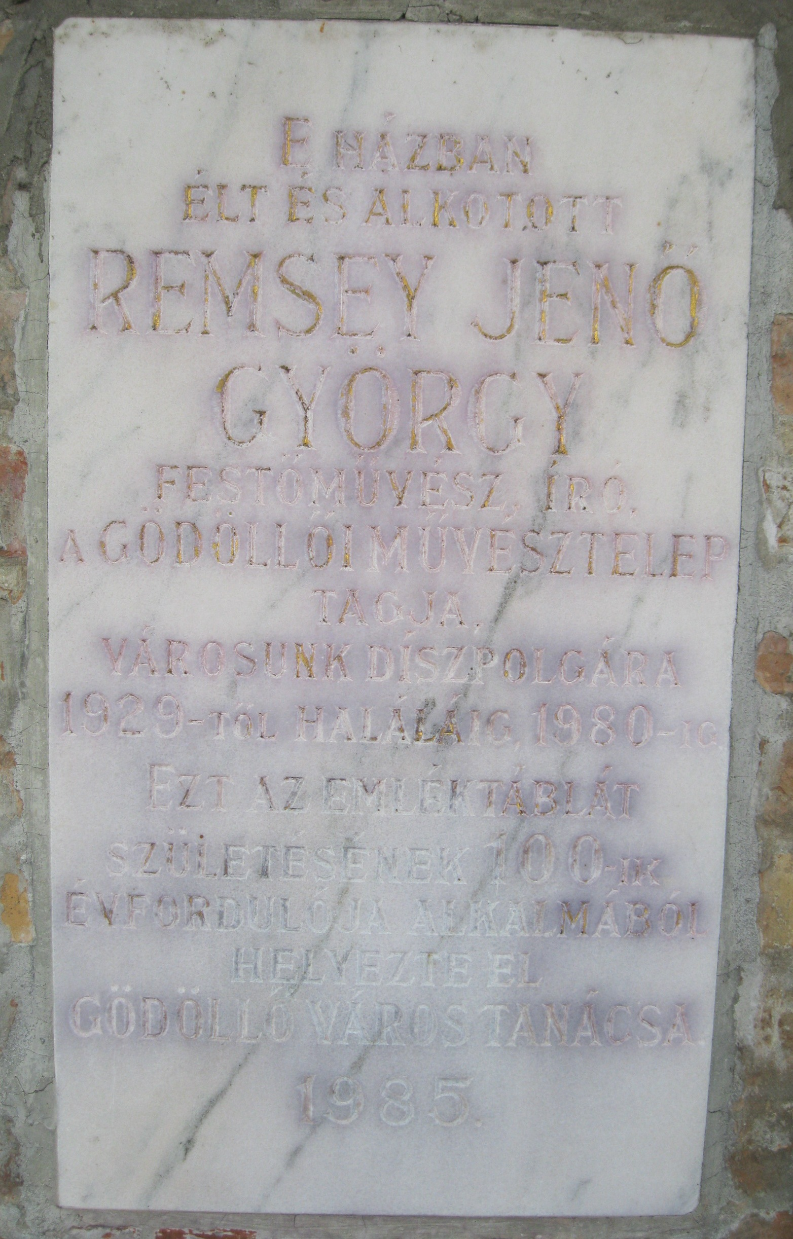 Commemorative plaque of György Remsey Jenő in Gödöllő, Körösfői Kriesch Aladár Street No 6